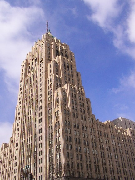 The famous Fisher Building in Detroit, home to one of the first radio stations in United States, WJR, and to the headquarters of Detroit Public Schools.